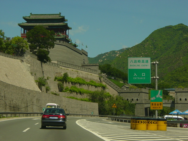 Badaling Expwy at Juyongguan - the wall is nearly next to the expressway (July 2004). Wikipedian DF08 took it on a recent trip to the Great Wall.